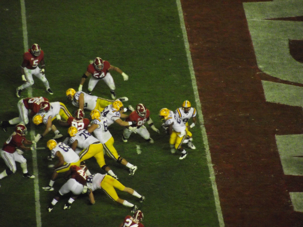 Kenny Hilliard of the LSU Tigers running the ball away from their end zone against the Alabama Crimson Tide defense in the fourth quarter at Bryant–Denny Stadium in Tuscaloosa, Alabama.